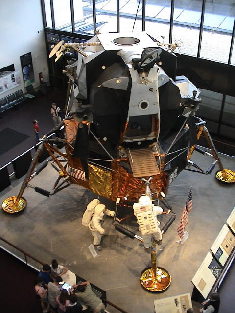 Lunar lander LM2 at the National Air & Space Museum, Washington DC. This was built for unmanned orbital tests, but following the success of LM1 on Apollo 5, its mission was scrapped. Taken in April 2004.